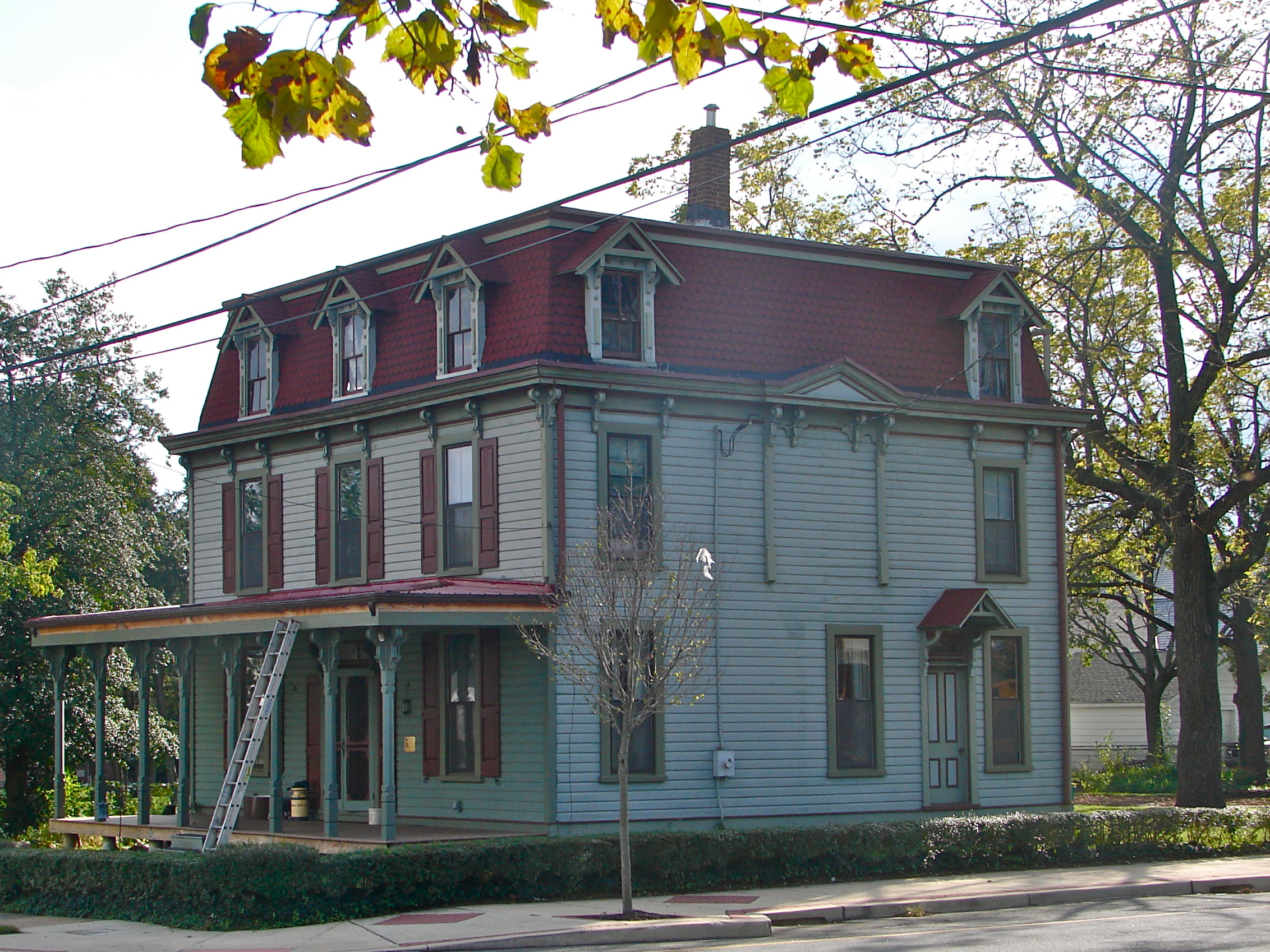 Collison House on the NRHP since July 14, 1993. At 21 N. Walnut St. in Christiana Hundred, Newport, Delaware. The porch may be new or restored, as older photos don't show it.